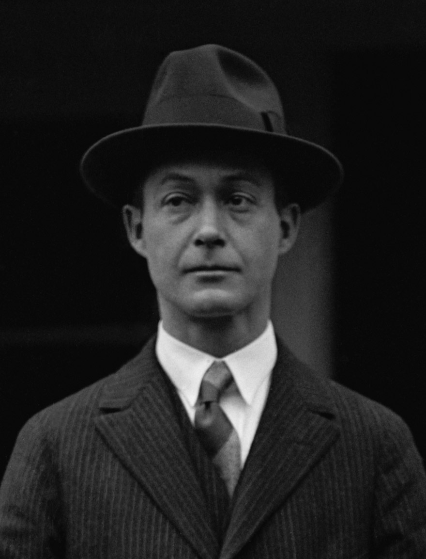 John Van A. MacMurray, 11/22/24